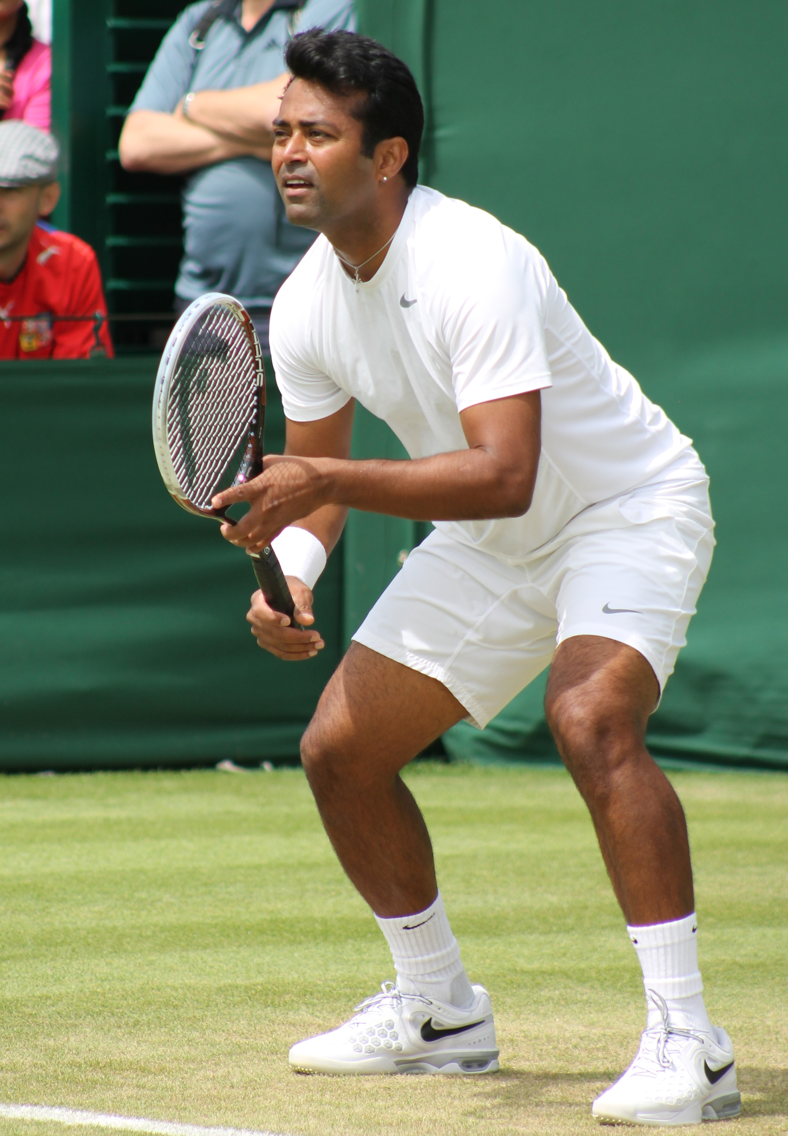 Paes WM13-009